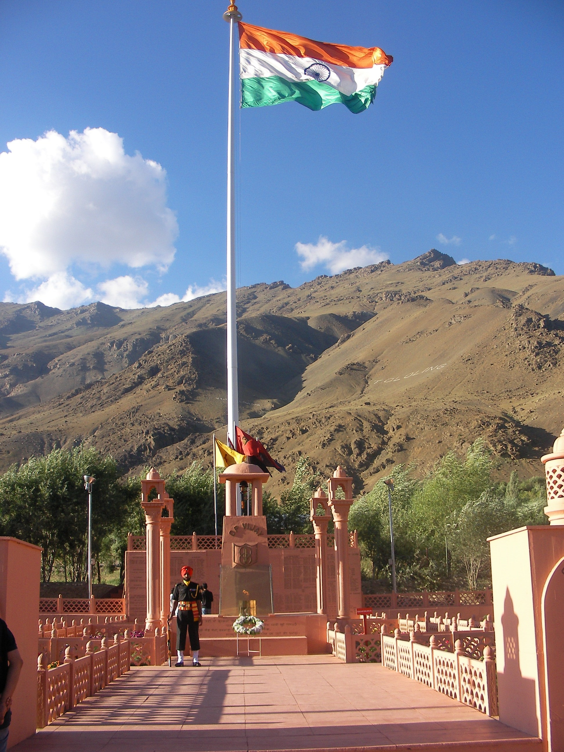 In memory of all the Martyrs of Kargil War